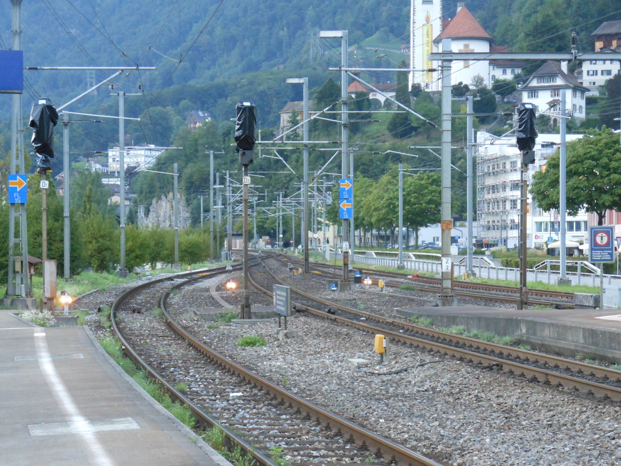 ETCS signs and out of order light signals at Flüelen train station.